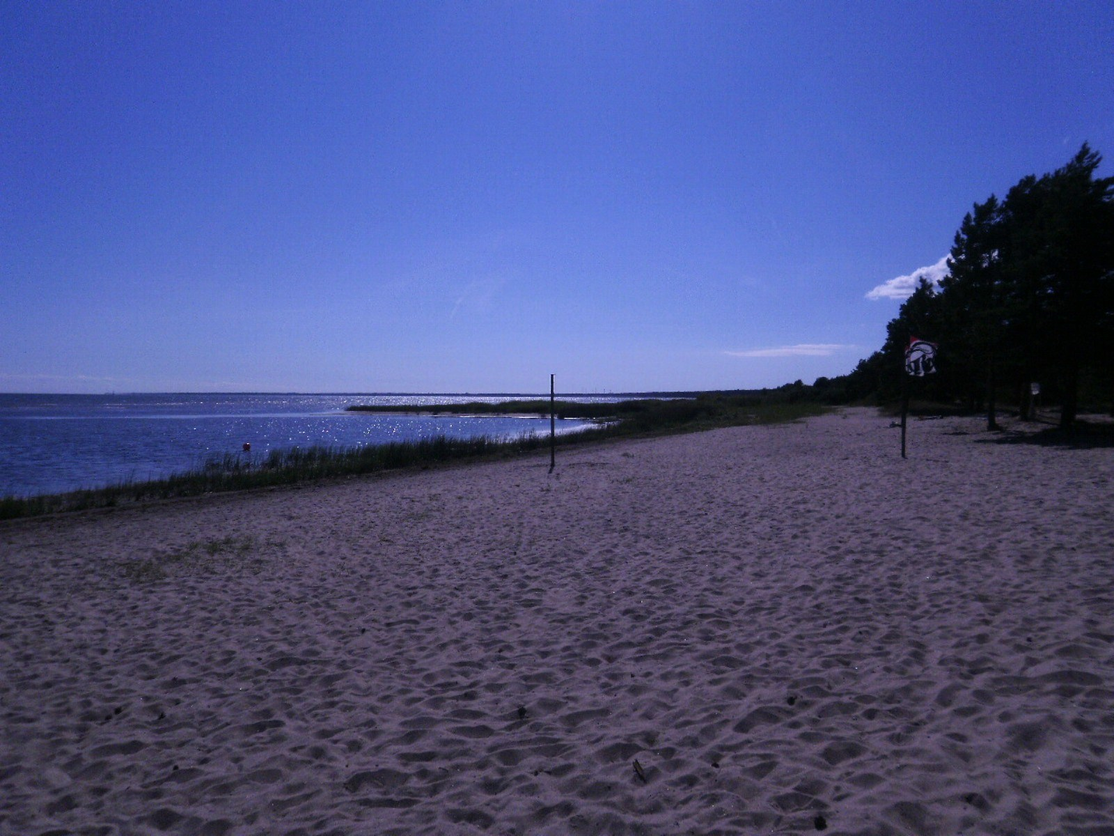 Mändjala beach, Saaremaa island, Estonia.